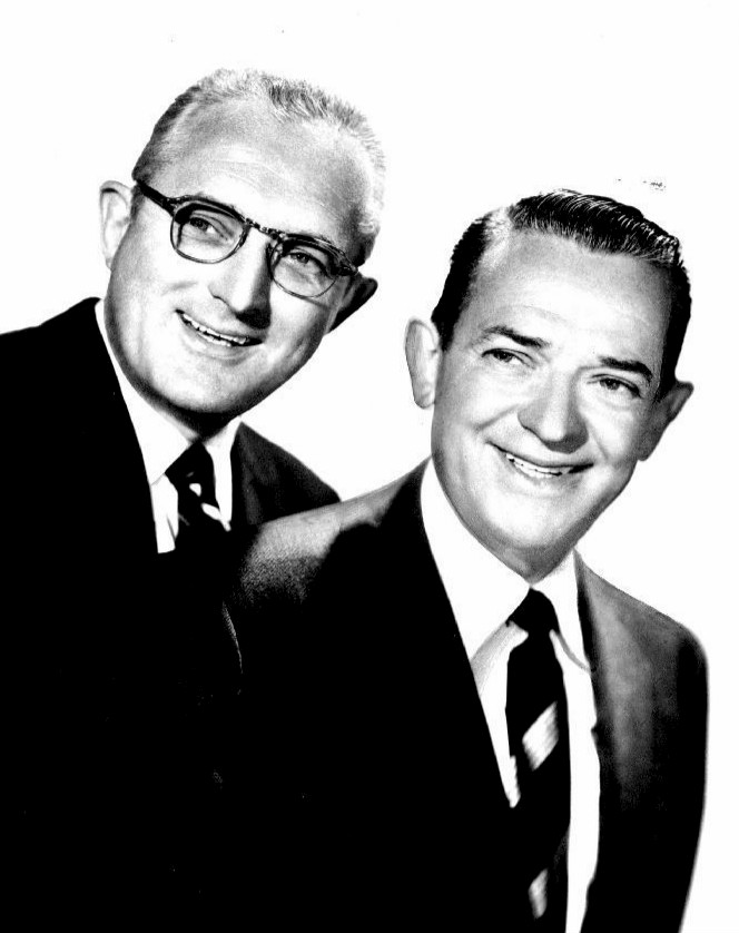 Photo of Tommy (left) and Jimmy Dorsey from the television program Stage Show. The brothers had a big rift in the 1930s with Tommy breaking with Jimmy and forming his own band. The estrangement continued until 1953, when Jimmy broke up his band and Tommy invited him to join him. They were the hosts of this musical variety show from 1954-1955. The show was seen every other week, alternating with The Jackie Gleason Show on CBS.